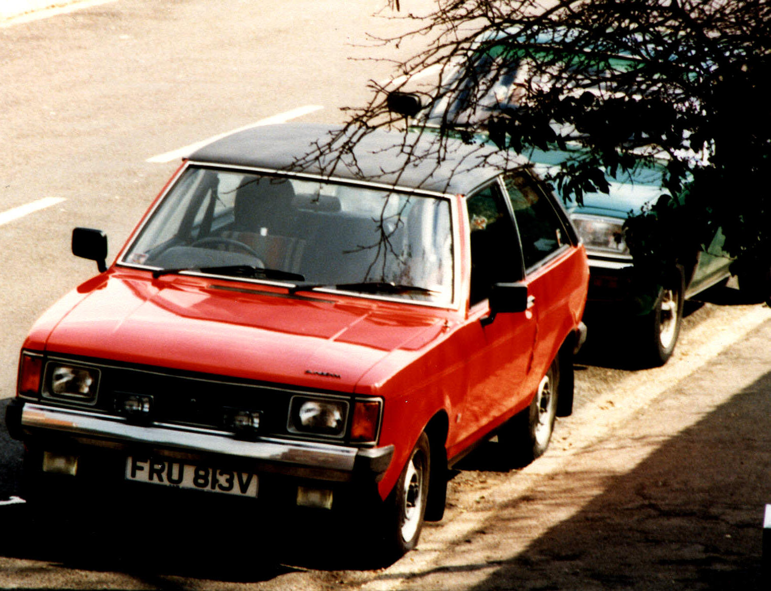 1980 Talbot Sunbeam 1.6 GLS, with non-standard driving lamps, door mirrors and seat covers. This particular vehicle was built with a Chrysler badge, but had the badges swapped for Talbot in the showroom before it was sold. Location: Southampton